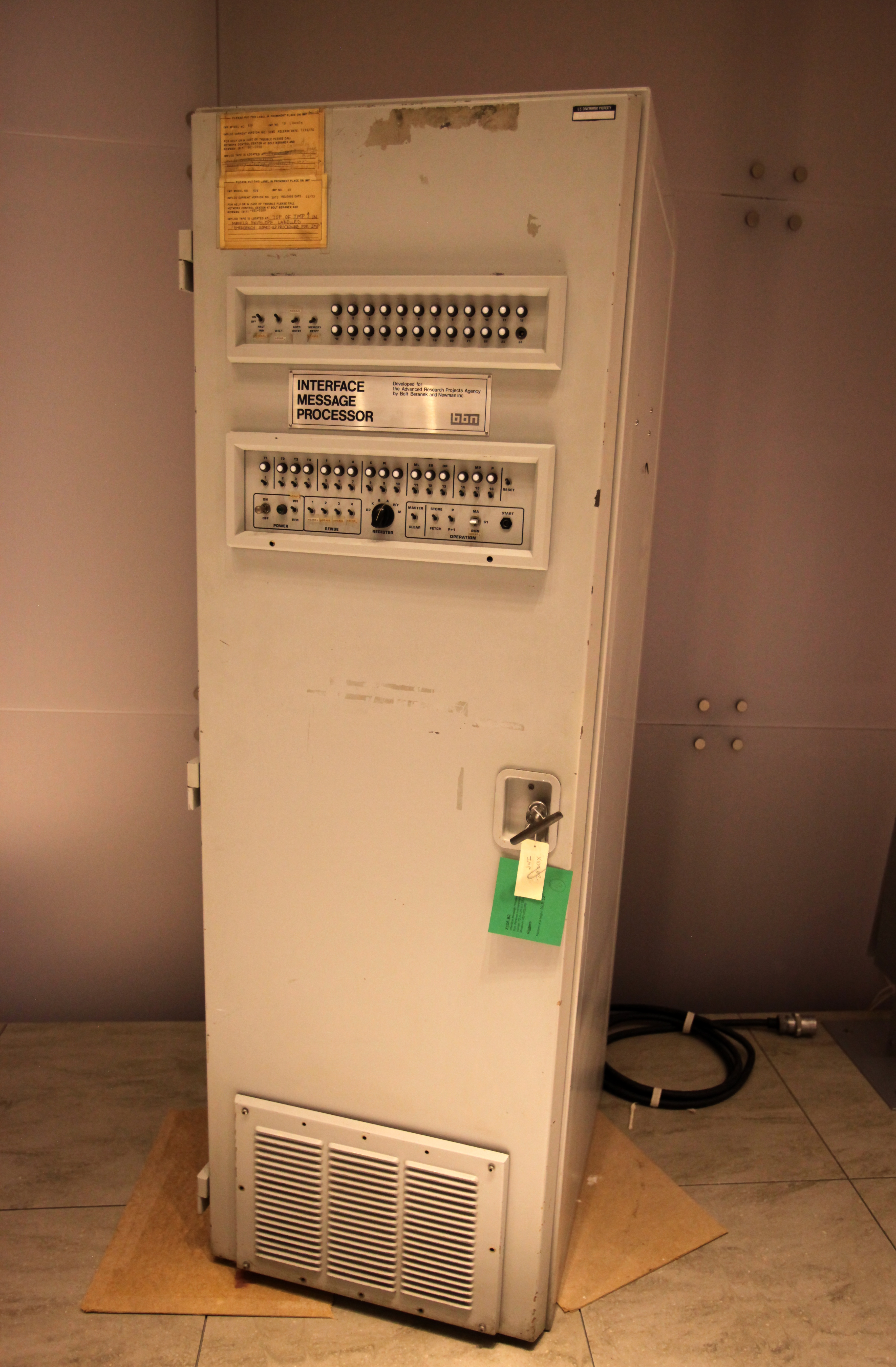 For the APRANET in 1969, the BBN Interface Message Processor (IMP) did the packet routing. (It's another cool artifact of history in the back room, awaiting installation in the new Computer History Museum exhibition hall.) The Honeywell 516 minicomputer inside had only 6,000 words of software (in 12K of core memory) and monitored network status and statistics. Cost: $82,200 The first transmission between UCLA and SRI took place on October 29, 1969. Larry Roberts, architect of the Internet, diagrammed some of that rich history at our CEO Summit.